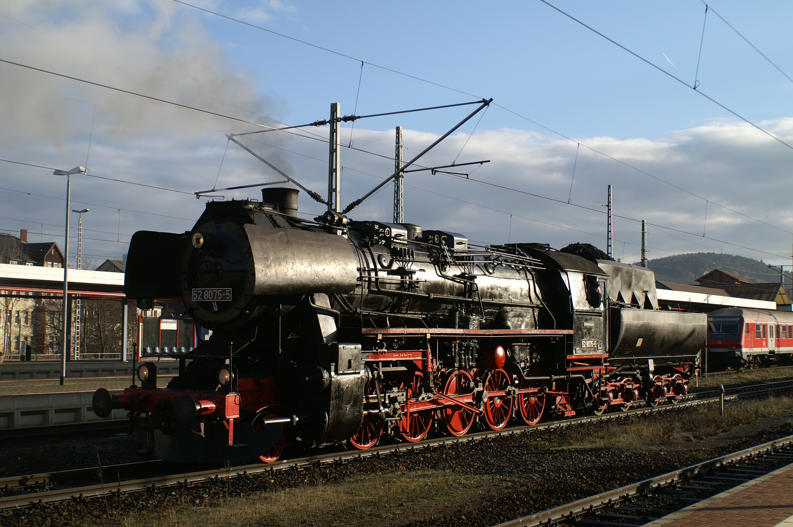 Rekolok DR 52 8075 at Eisenach.